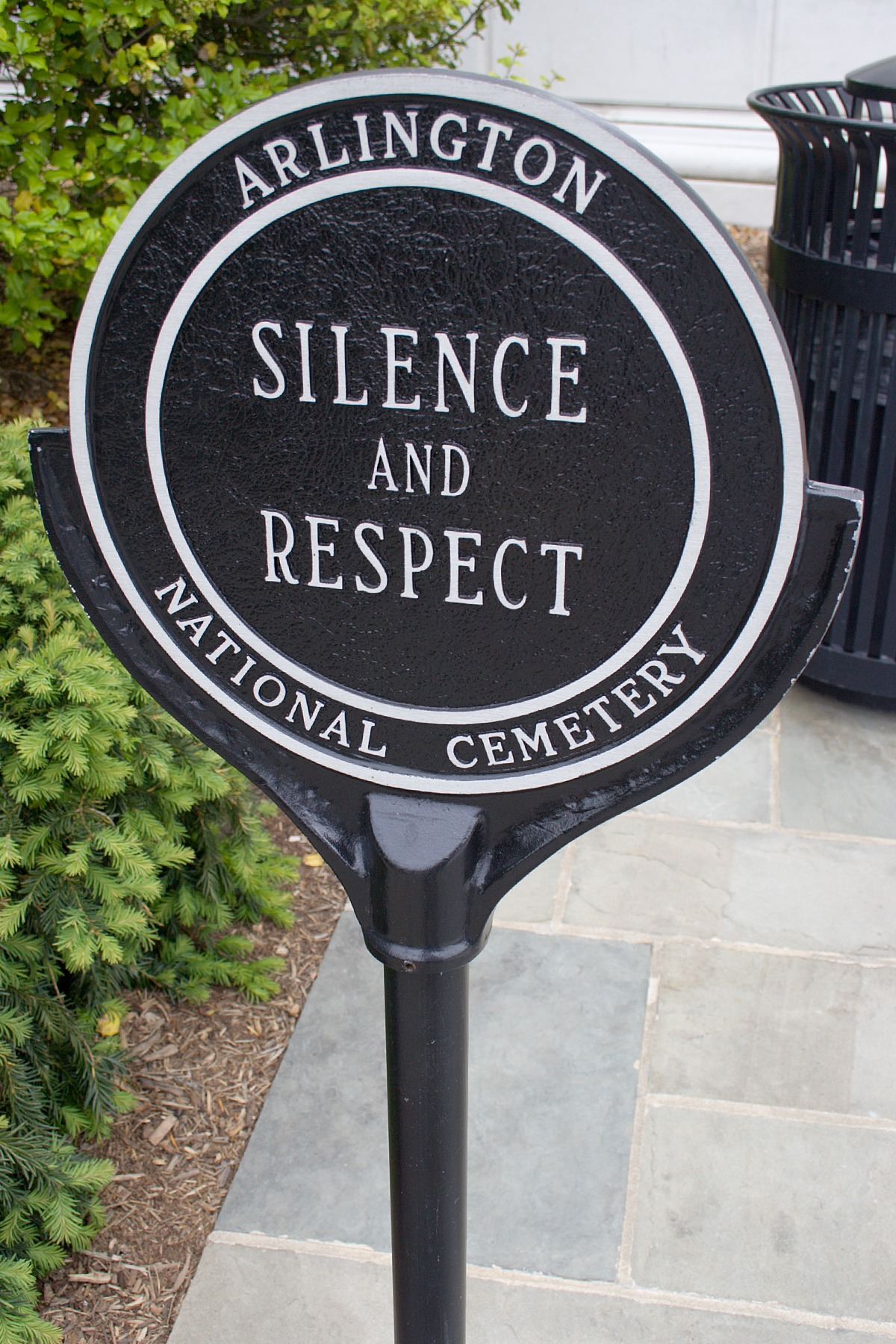 A sign commanding silence and respect at Arlington National Cemetery, Arlington County, Virginia.